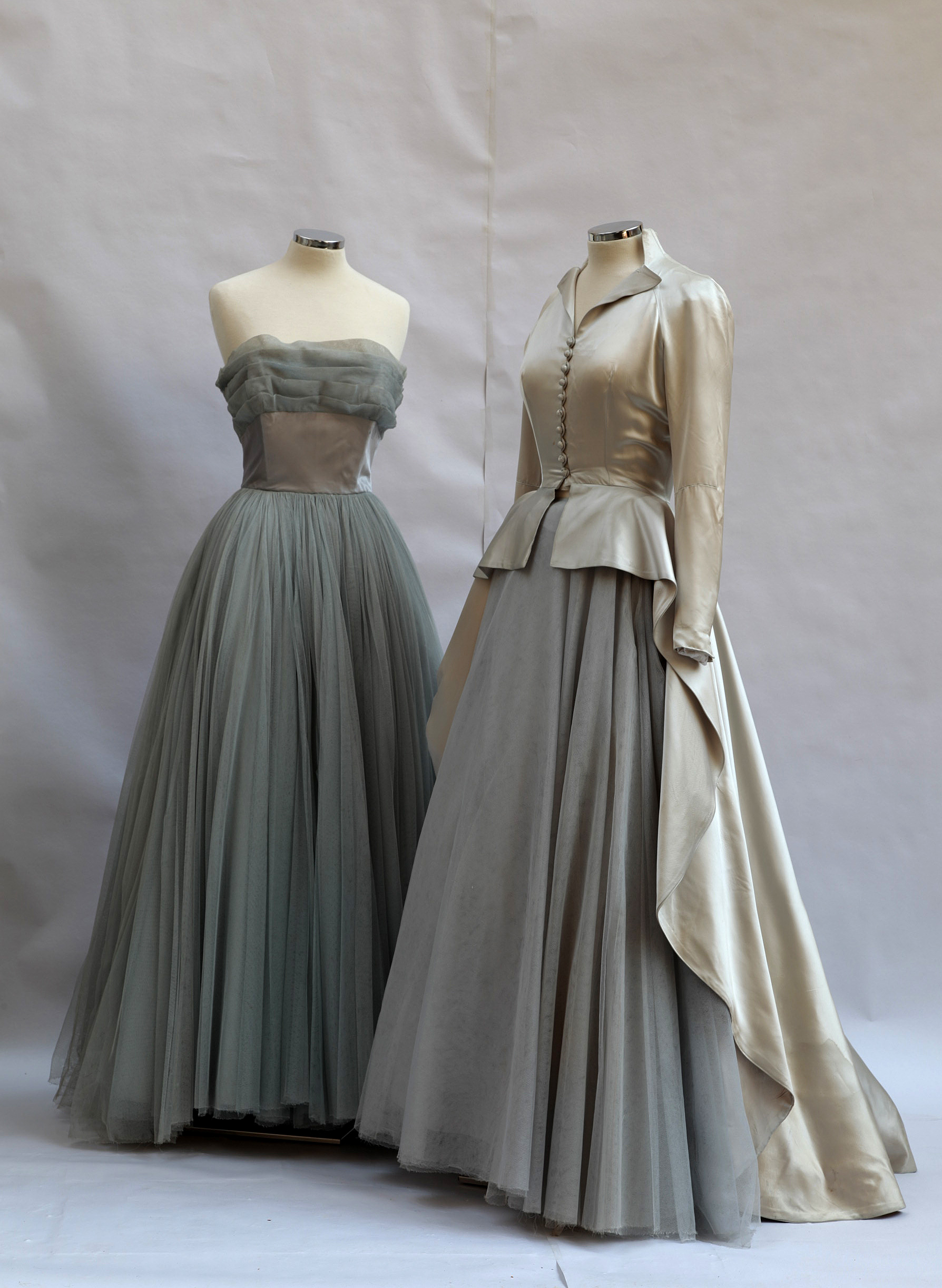 Two evening gowns by Jean Dessès, Paris, 1951. Blue silk chiffon with strapless bodice and cream satin long-sleeved jacket with deep peplum extending into a train over a grey chiffon skirt. Collection of the Peloponnesian Folklore Foundation, museum numbers 2003.6.557, 2003.6.556